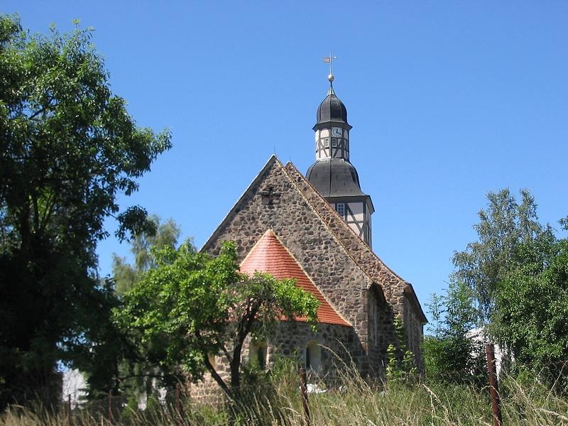 Stone church Borne, built around 1200. The village Borne is an incorporated part of Belzig, the central town of the district Potsdam-Mittelmark in the state Brandenburg of Germany. Belzig appertains to the natural preserve Naturpark Hoher Fläming.